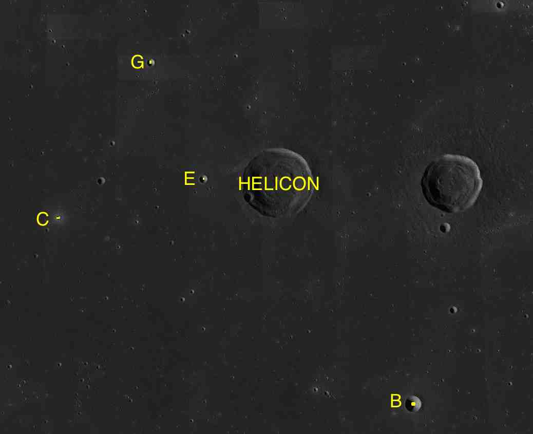 Part of the chart LAC-24 used for the presentation